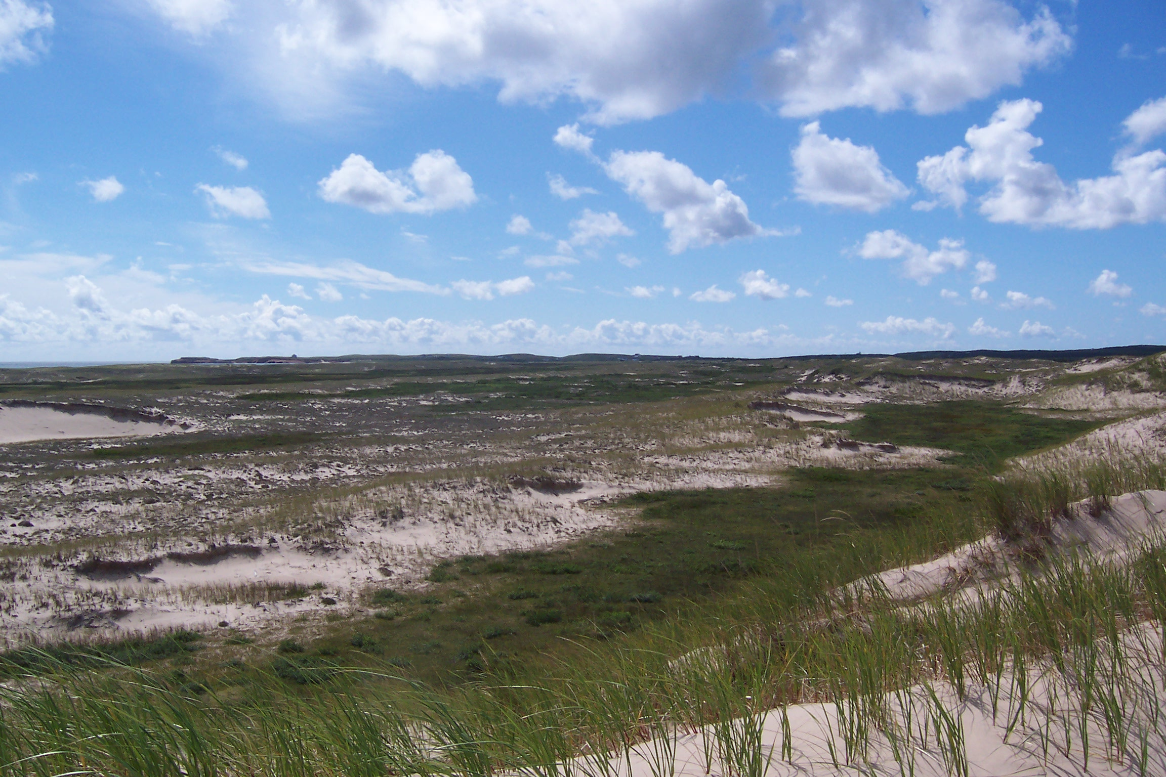 Landscape at Pointe-de-l'Est, Magdalen Islands, Québec, Canada